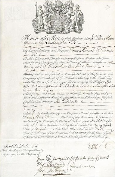 1723 (10 George I) power of attorney on pro-forma document of South Sea Company, granted by Admiral Sir Coke Mews ?? to (his lawyer/ co-trustee?) Thomas Marriott of Lincolns Inn, Middlesex (whose will was proved 19 June 1724), who jointly held stock in the South Sea Company. This is not a share certificate as erroneously listed in the catalogue of National Maritime Museum, London: "1733 (sic) share certificate of the South Sea Company. National Maritime Museum, London, ID: D9909. Showing the Company's coat of arms and the Latin motto: A Gadibus usque Auroram ("From Cadiz to Dawn", Juvenal, Satires, 10)". Signature of Sir Coke Mews ?? witnessed by Rev Humphrey Tucker, minister of the parish of Clifton in Gloucestershire, and two churchwardens.